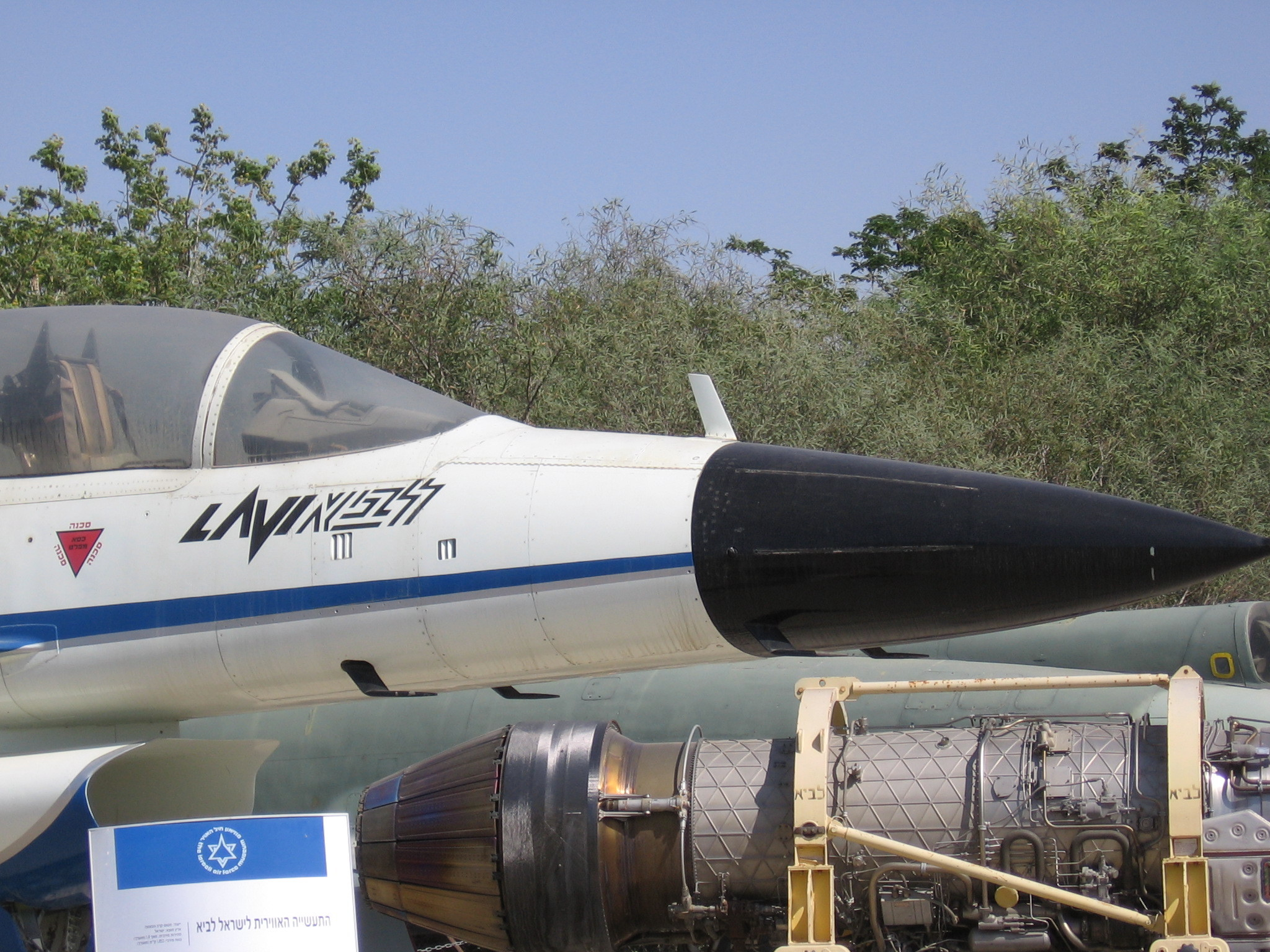 Nose of IAI Lavi in Beer-Sheva